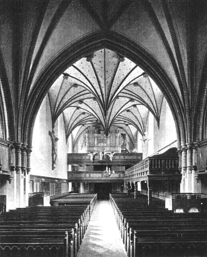 Interior of Corpus Christi Church in Elblag